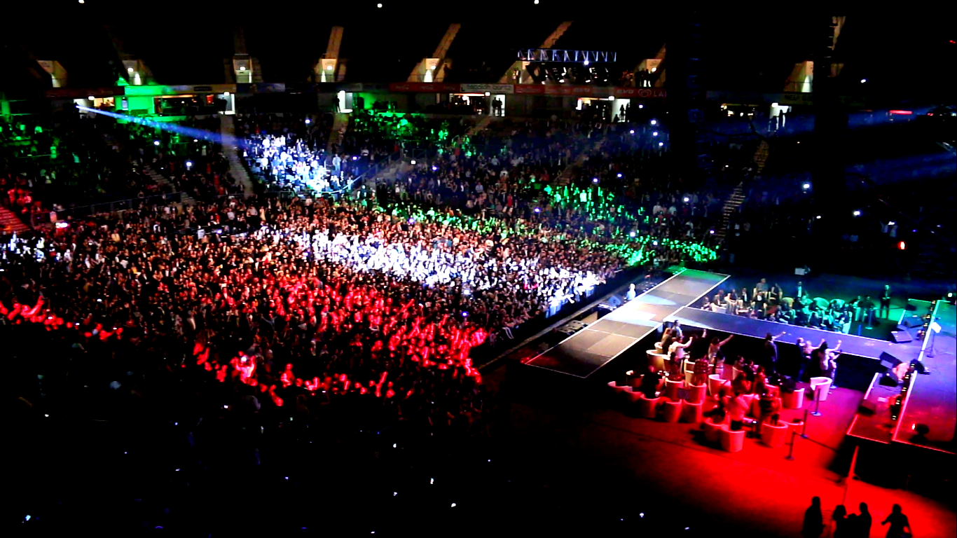 People Singing EY IRAN anthem @ Persian New Year (Nowruz) Concert - Oberhausen Arena - March 2014 -- Photo: Persian Dutch Network / PDN